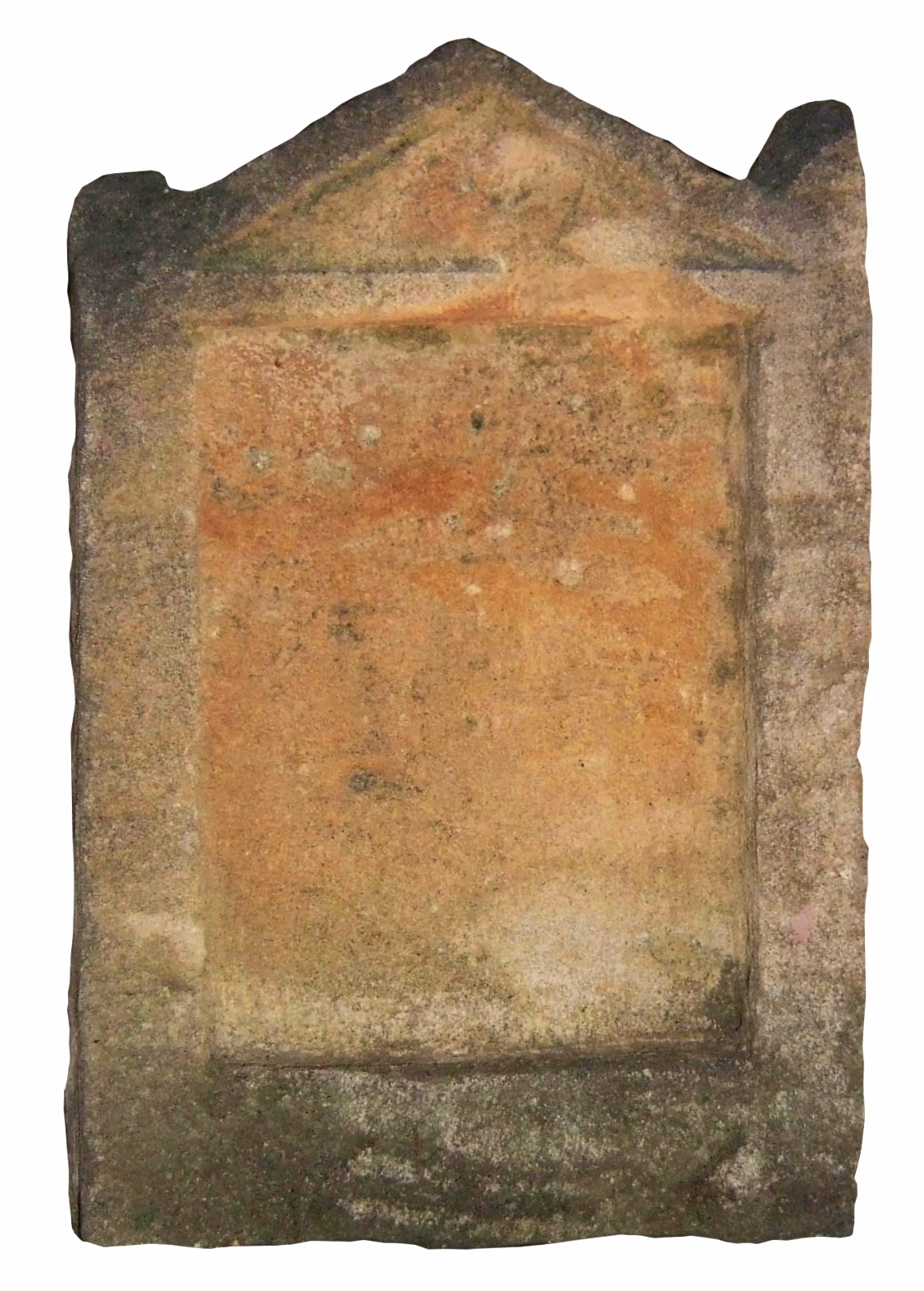 Sicily